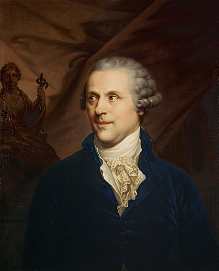 Dr. John Rogerson, 1740 - 1828. Physician and adviser to Catherine the Great